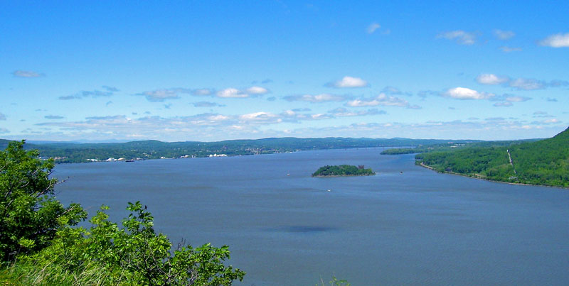 Photographed by Daniel Case on 2006-05-22